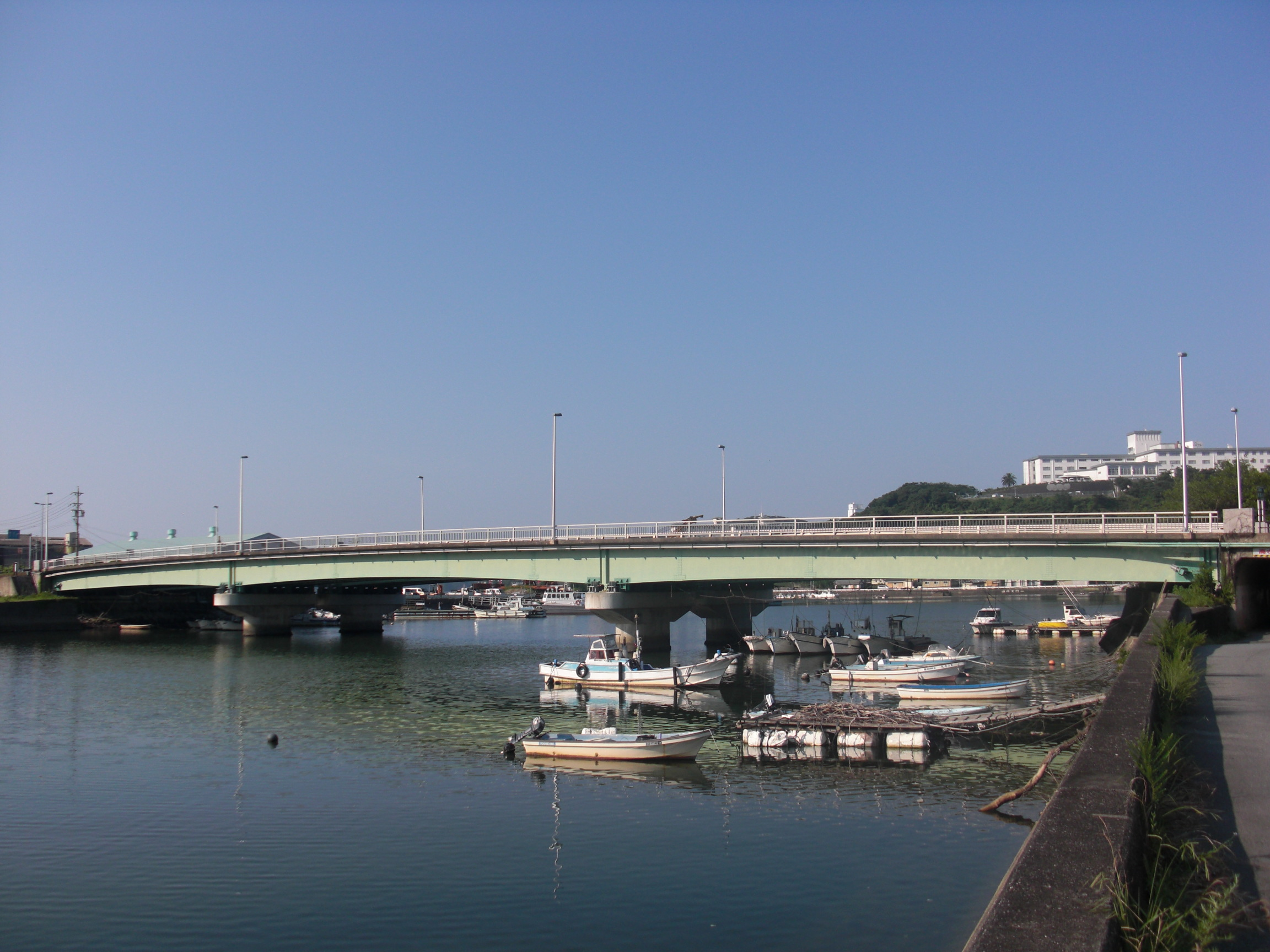 The Arashima Bridge (Arashima-ohashi) on the Mie Prefectural Road Route 750 in Toba City